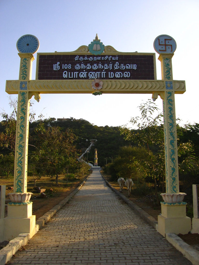 Ponnur Hill Arch Entrance